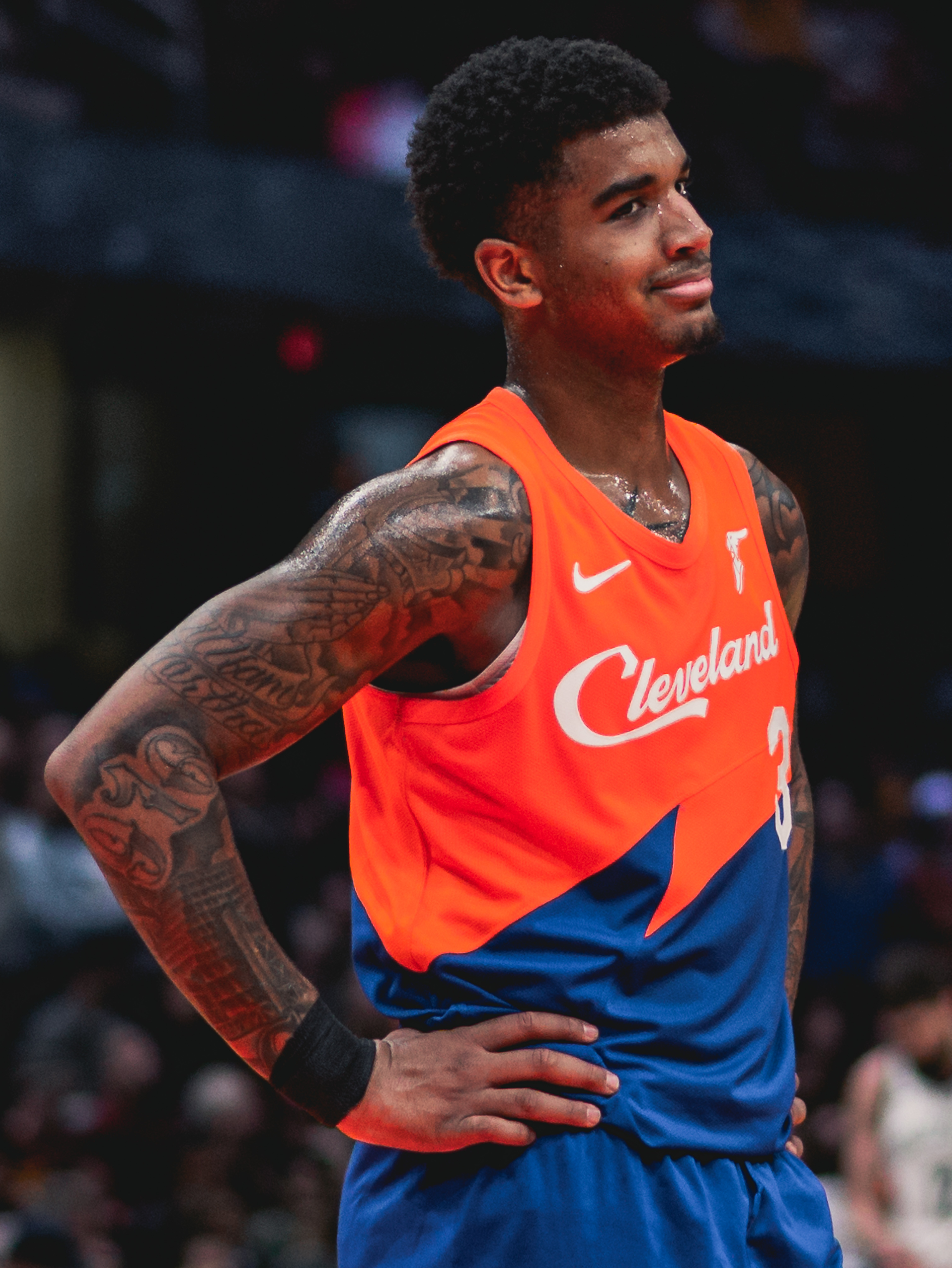 Marquese Chriss playing for the Cavs in 2019